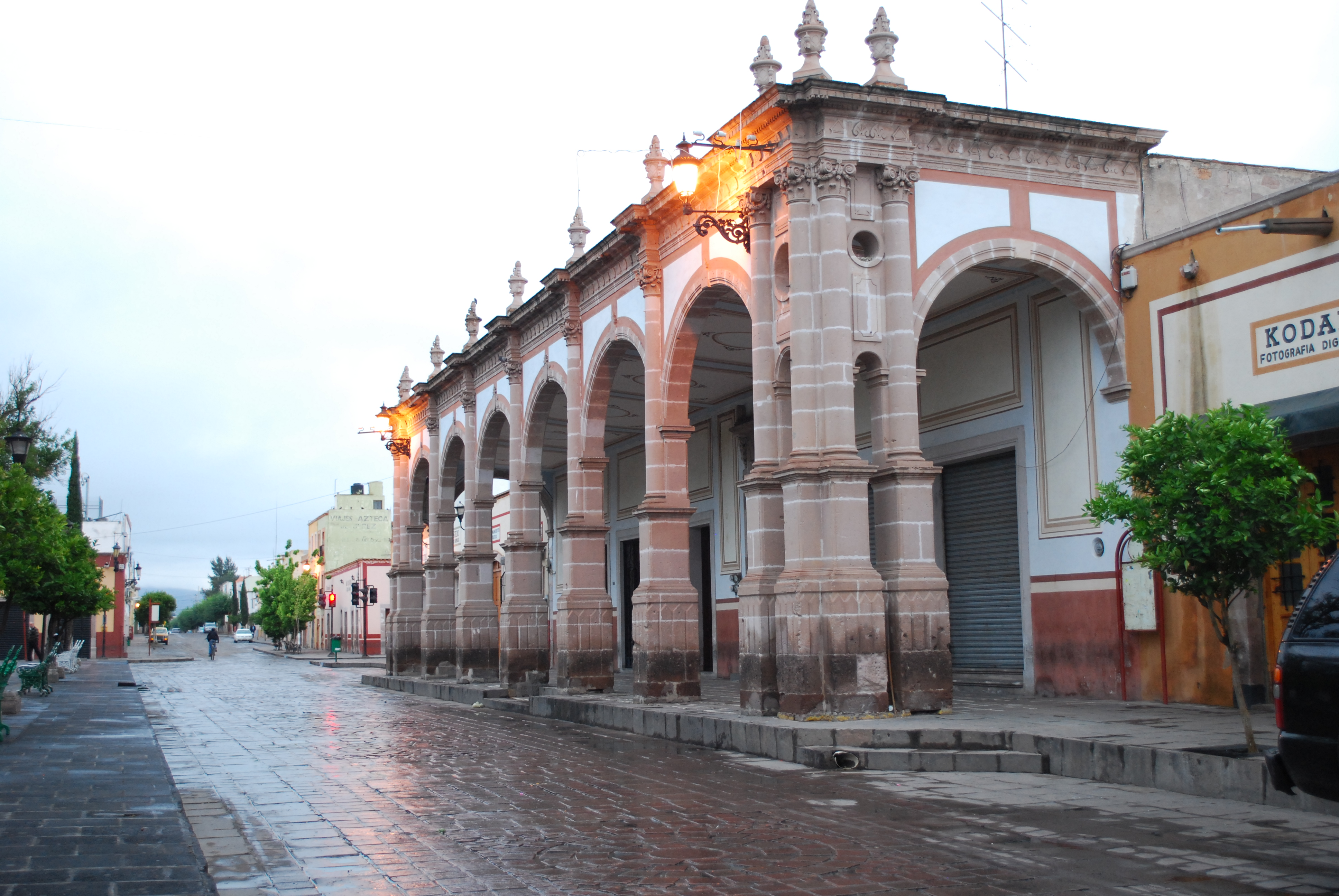 Portal Iguanazo in Juarez, Zacatecas